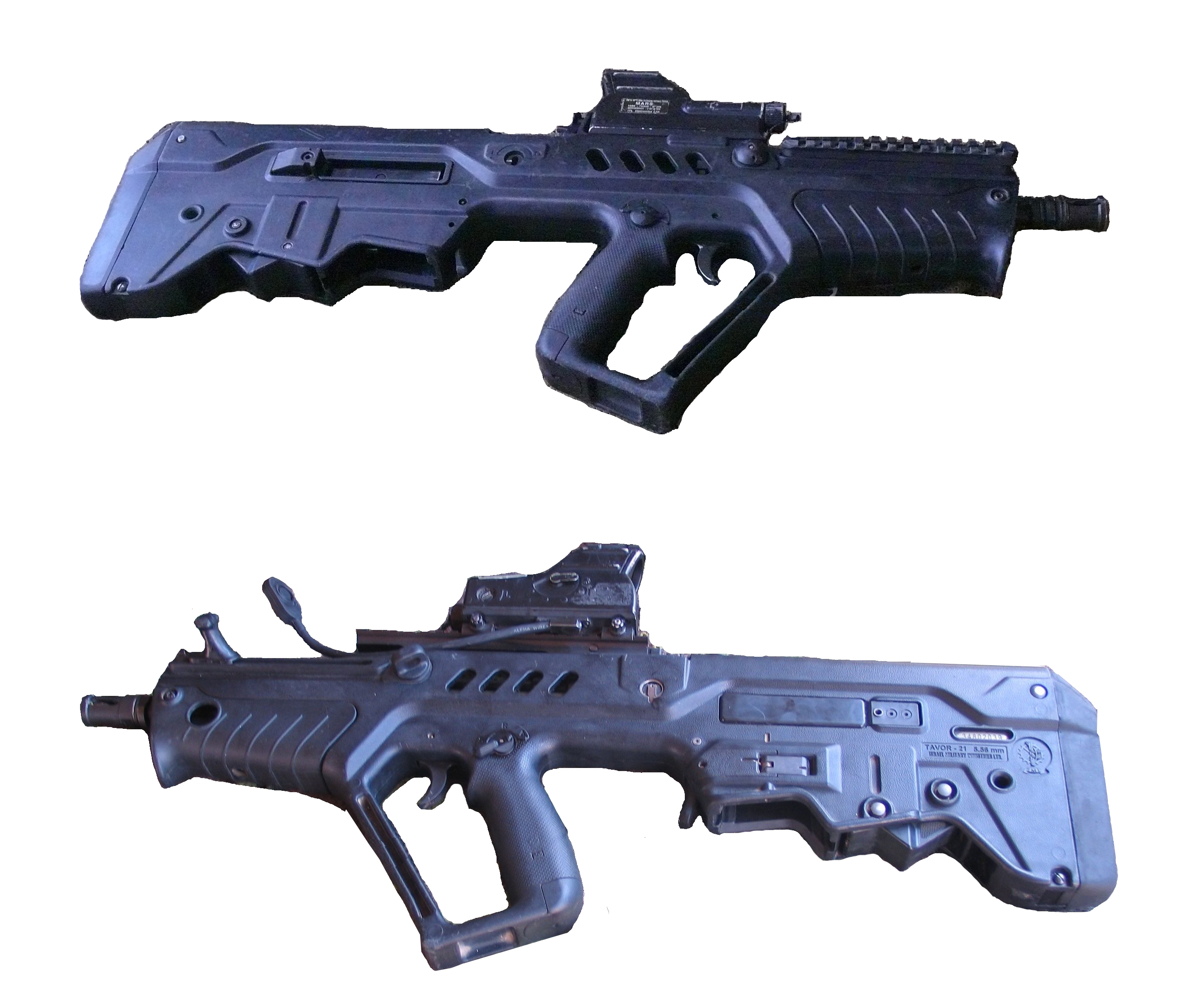 IWI Tavor bullpup assault rifle - commando model, CTAR-21